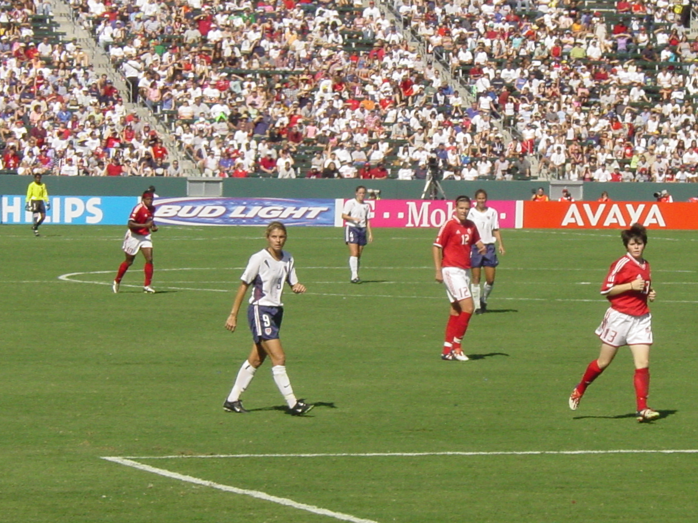 9 mia hamm in 2003 world cup